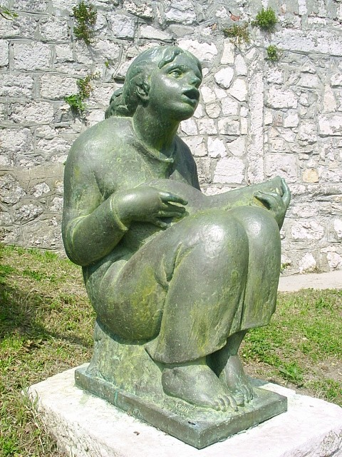 Town of Osor, Croatia TF2-A0A3